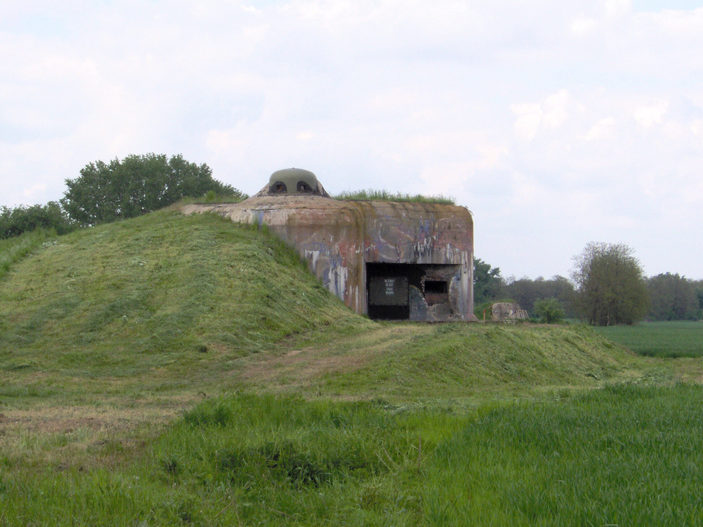 MJ-S 15 Závora infantry casemate, Znojmo District, Czech Republic